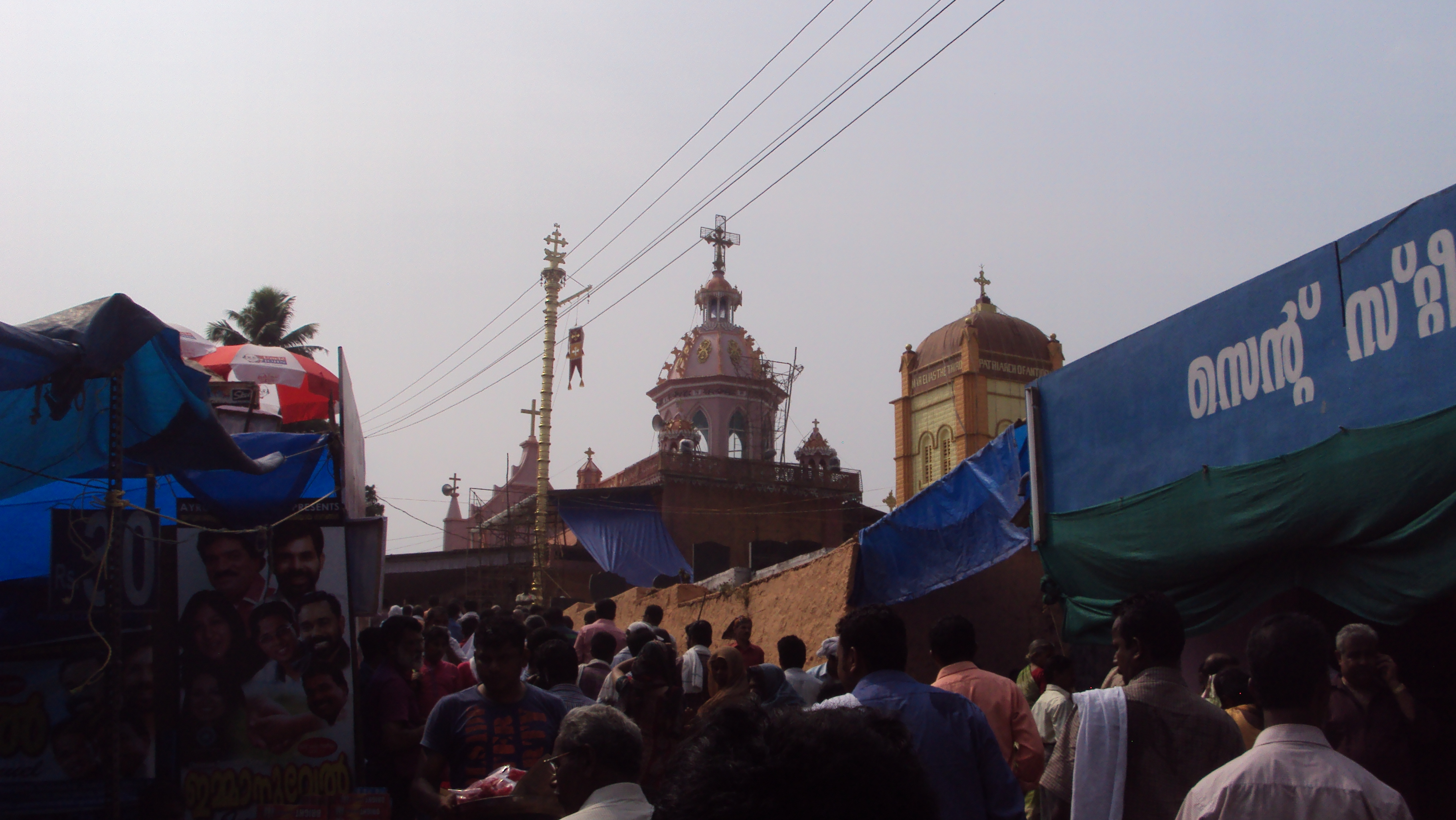 Front view of Manjanikara Dayara